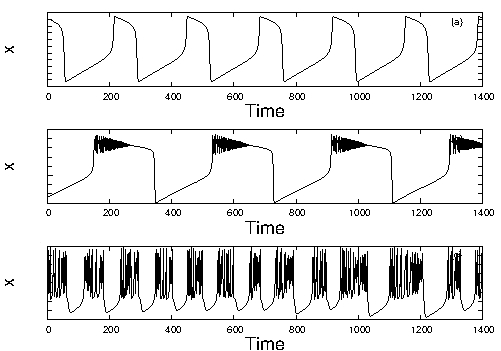 Time series of Rulkov map with three typical dynamical regimes.